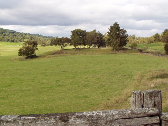 Avielochan Chambered Cairn, near to Avielochan, Highland, Great Britain. Remains of Avielochan Chambered Cairn with Perth to Inverness railway just off to the East and A9 to West